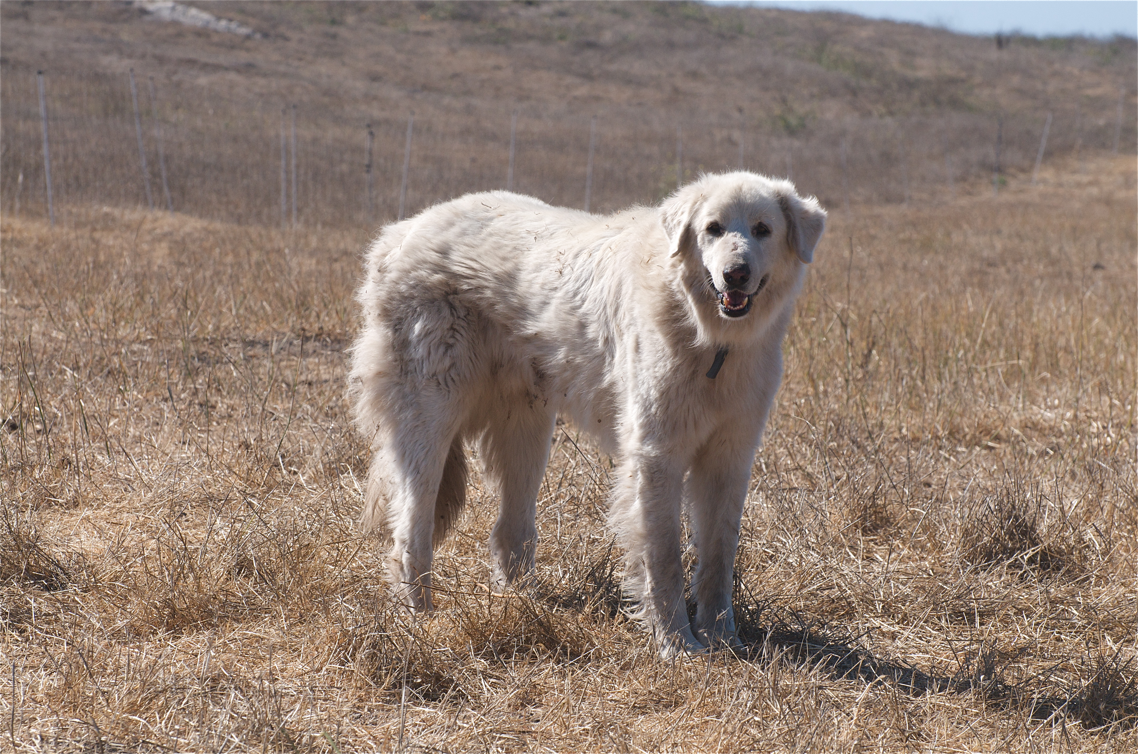 An Akbash dog guarding a flock of sheep in California.